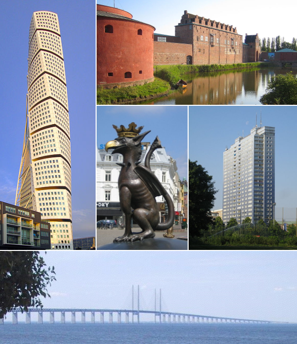 A 5-picture collage of Malmö. Including; file:Oresund.jpg, file:Malmö griffin.jpg, file:Turning Torso.jpg, file:Kronprinsen, Malmö 6.jpg and file:Malmöhus slott 2.jpg.